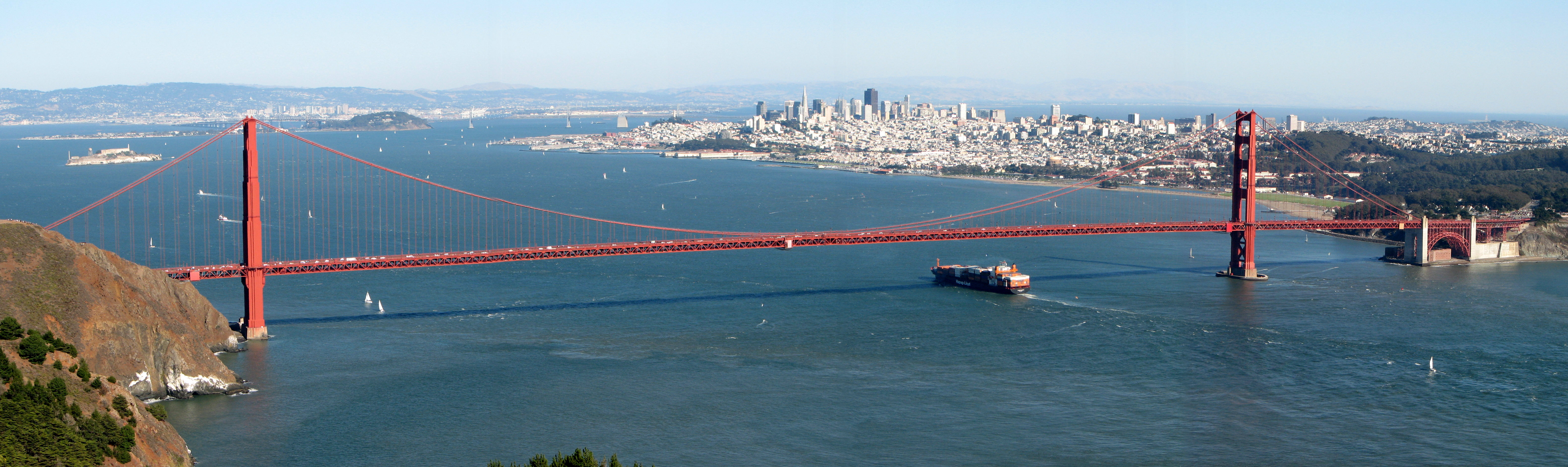 Golden Gate Bridge, San Francisco, California, USA